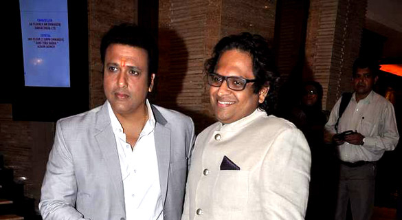 Govinda launches his music album 'Gori Tere Naina' in 2013